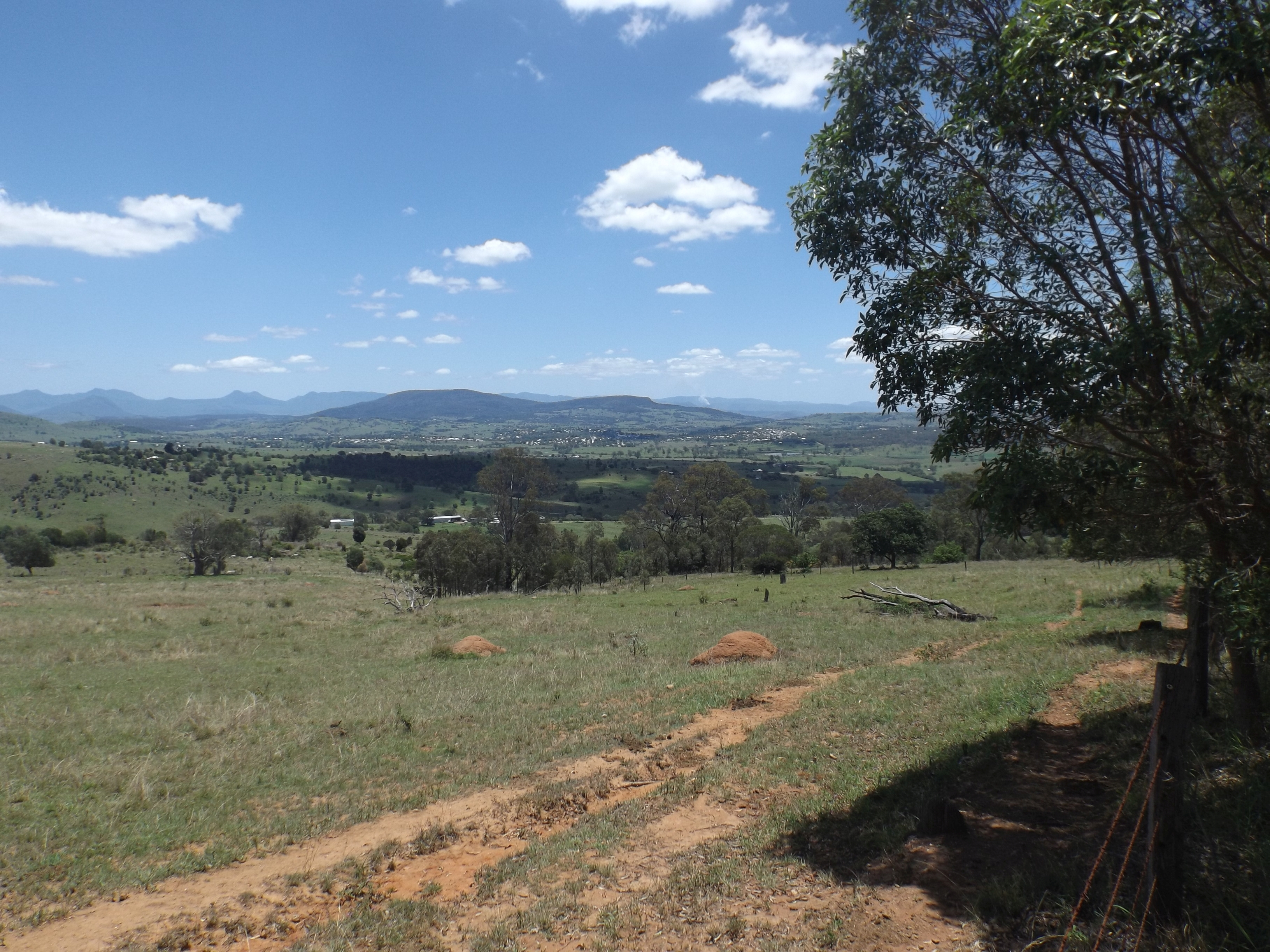 Photo of paddocks and views at Allandale, Scenic Rim Region, Queensland, Australia.